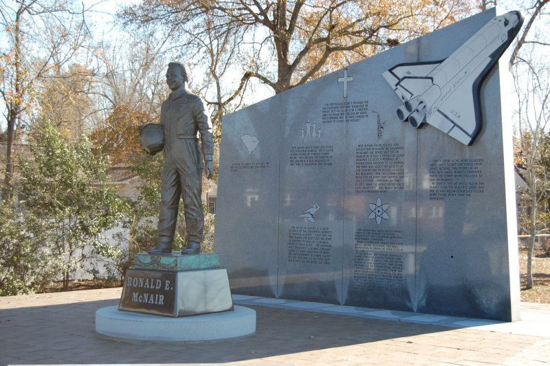 photograph of Ronald McNair statue from McNair Park, Lake City, SC